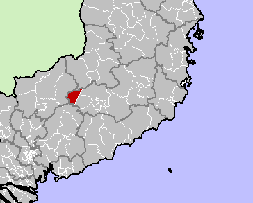 Cat Tien District, Lam Dong Province, Vietnam.